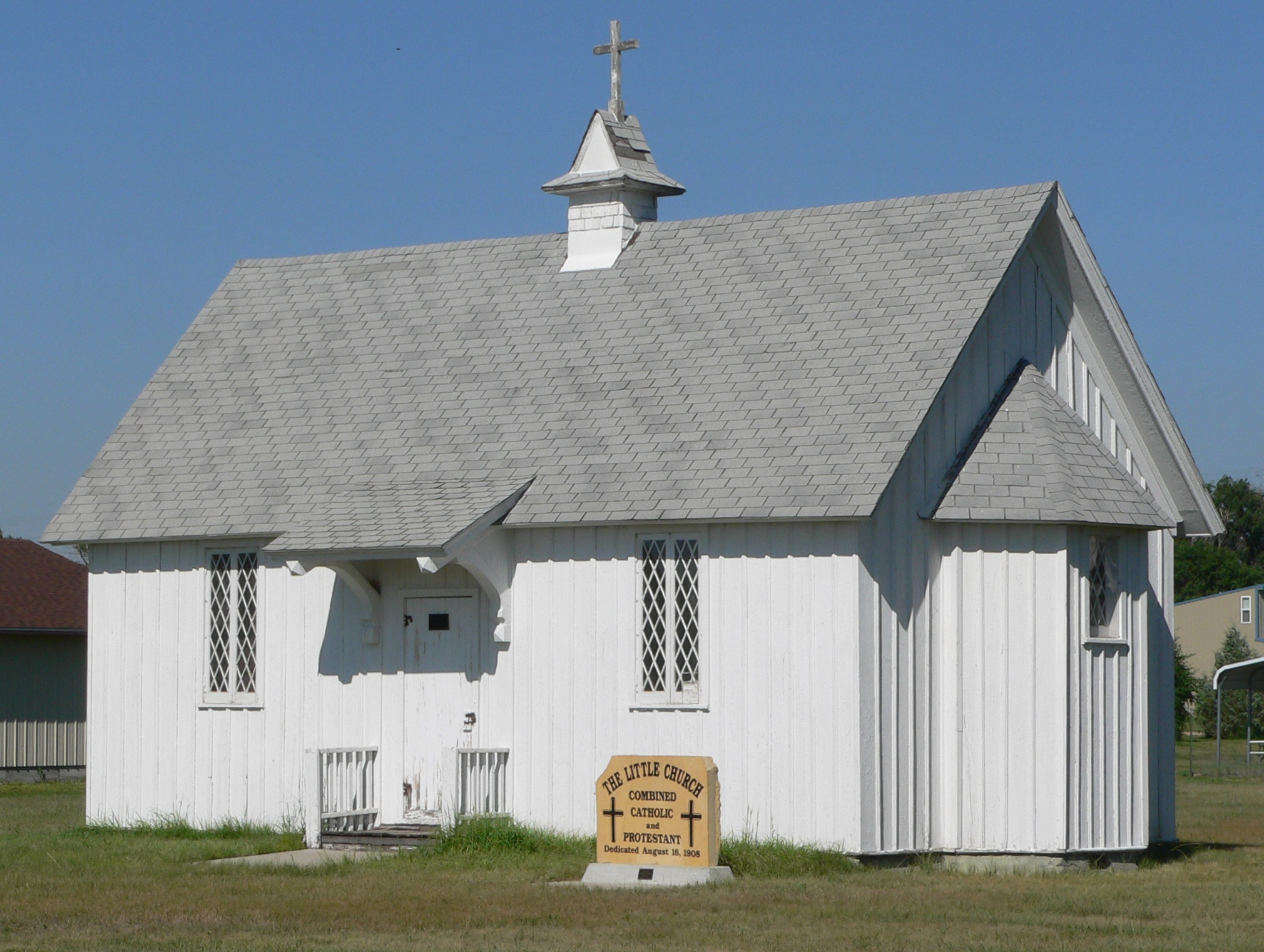 Keystone Community Church in Keystone, Nebraska; seen from the southwest.